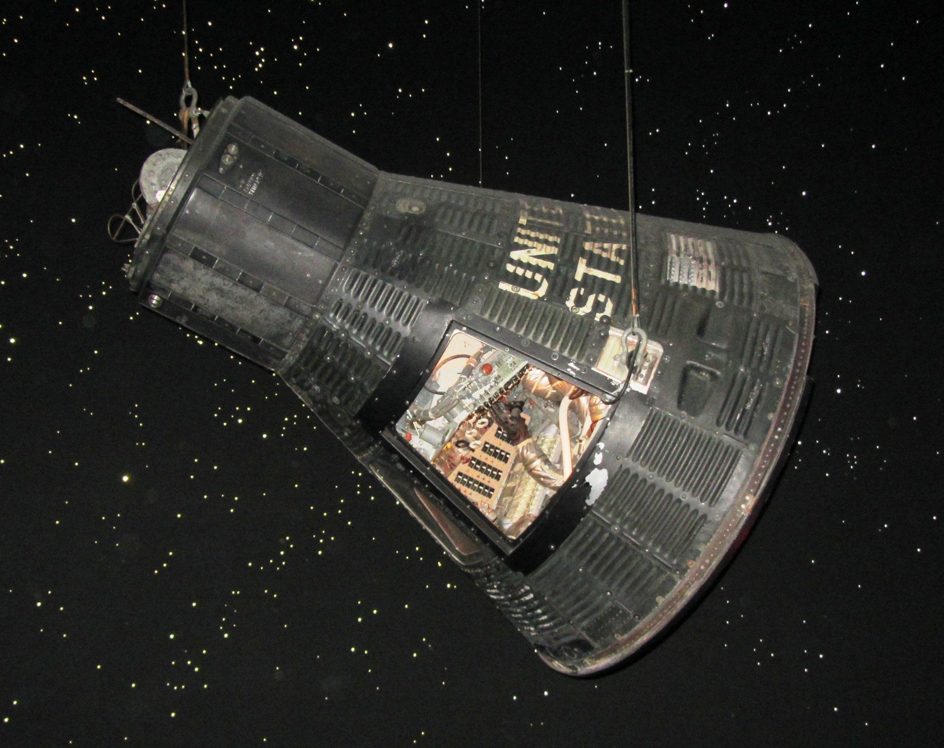 MA-9 Faith 7 Space Center Houston, Houston, TX